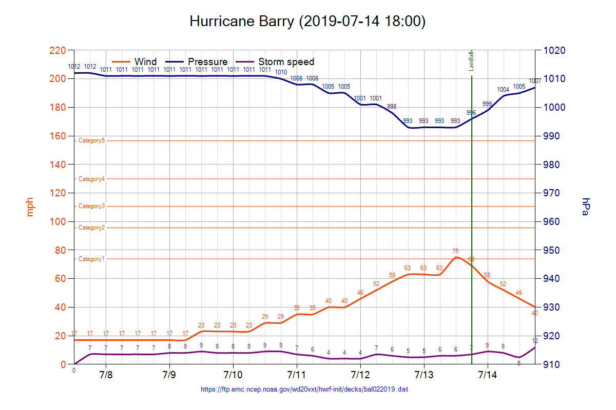 Hurricane Barry's 1-minute maximum sustained wind, minimum pressure and storm speed